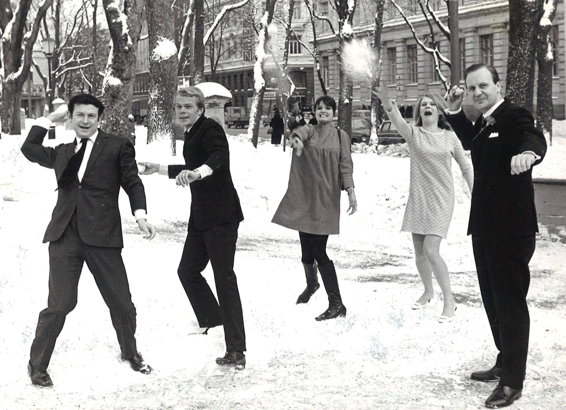 Photograph of movie people promoting their films in Helsinki: Jean Aurel (to the left), Lasse Mårtenson, Kristiina Halkola, Titta Karakorpi, and Lars Åberg.